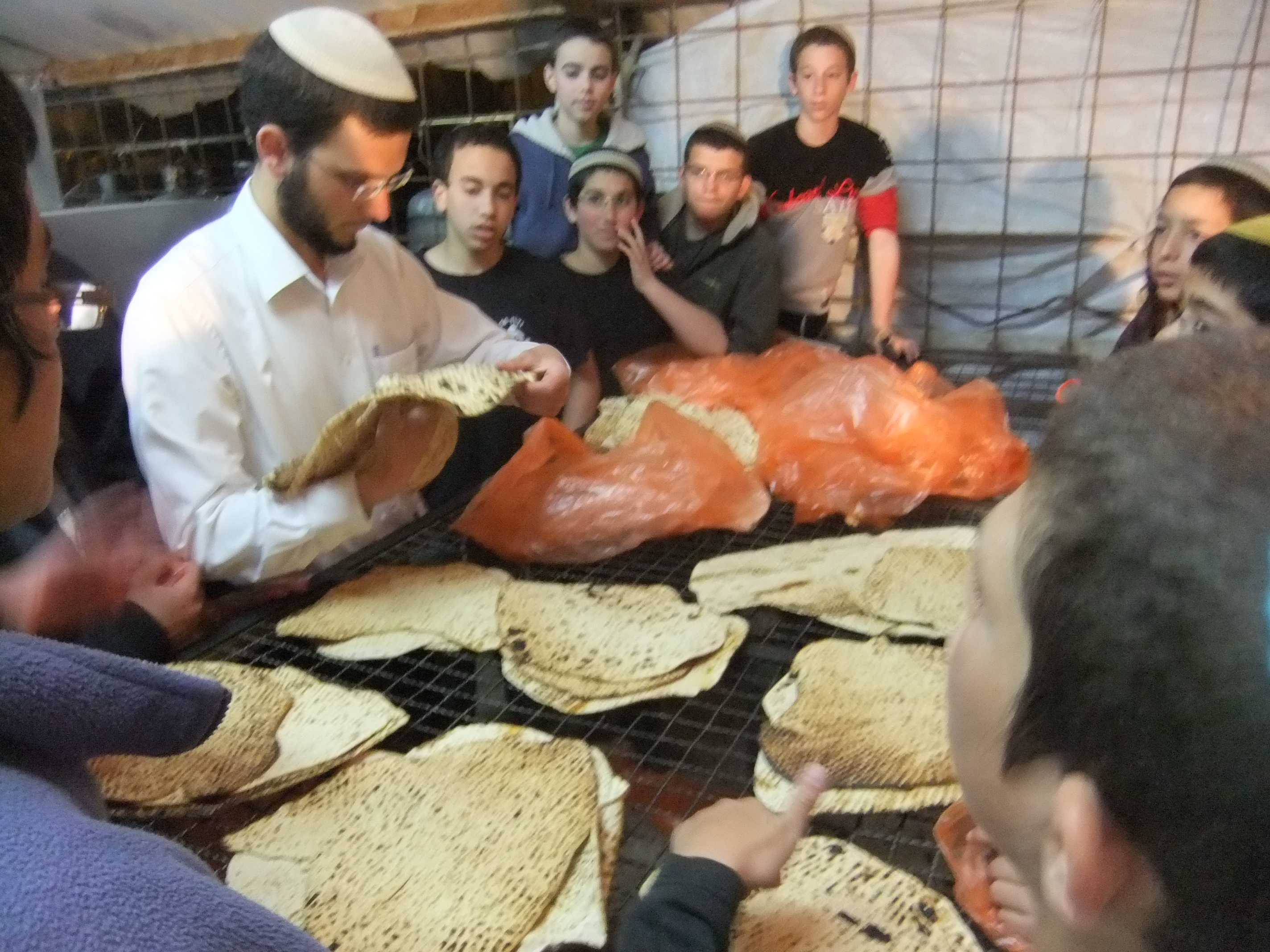 Matza distribution